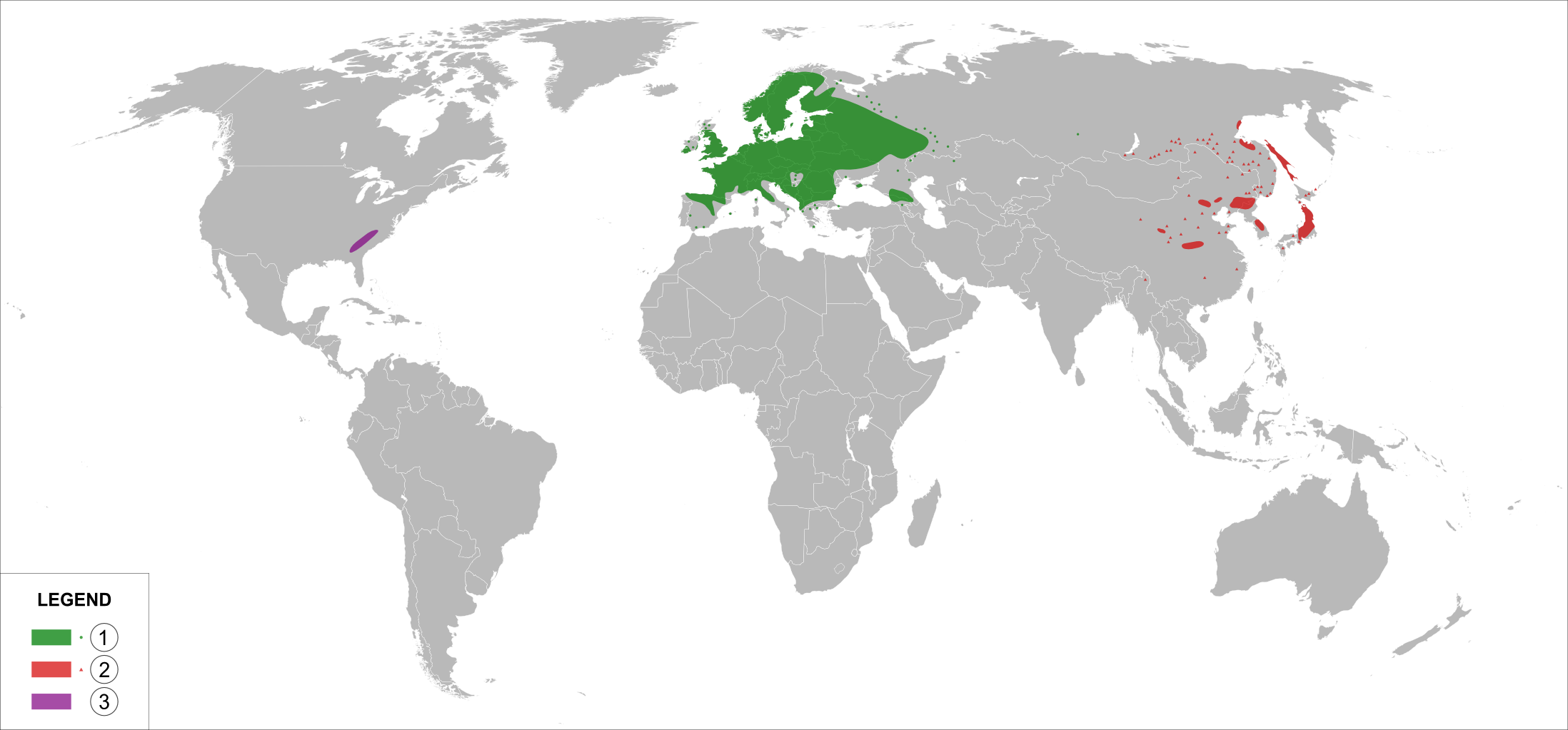 Convallaria distribution map. Legend: C. majalis L. C. keiskei Miq. (syn. C. majalis var. keiskei (Miq.) Makino) C. pseudomajalis W.Bartram (syn. C. montana Raf., C. majalis var. montana (Raf.) H.E.Ahles)